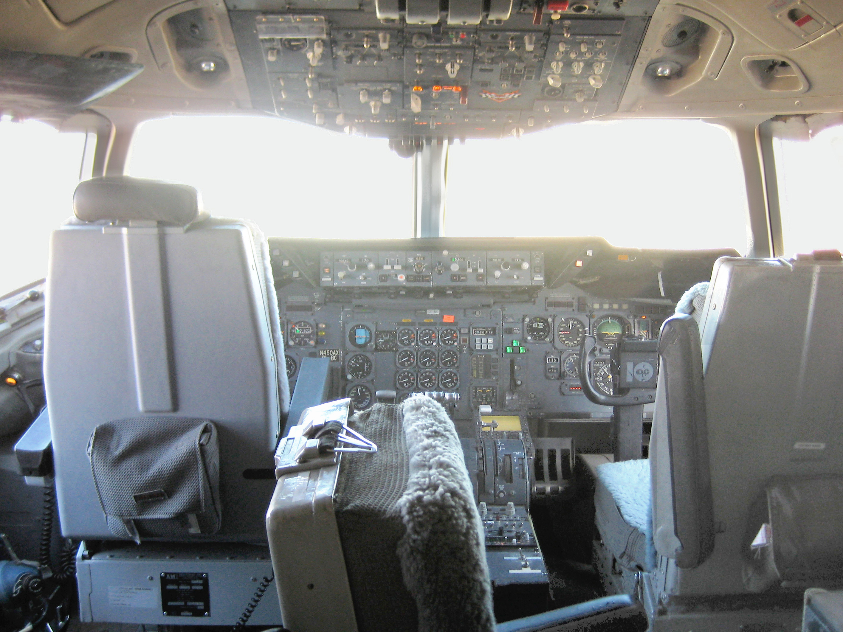 Tanker 910 cockpit.